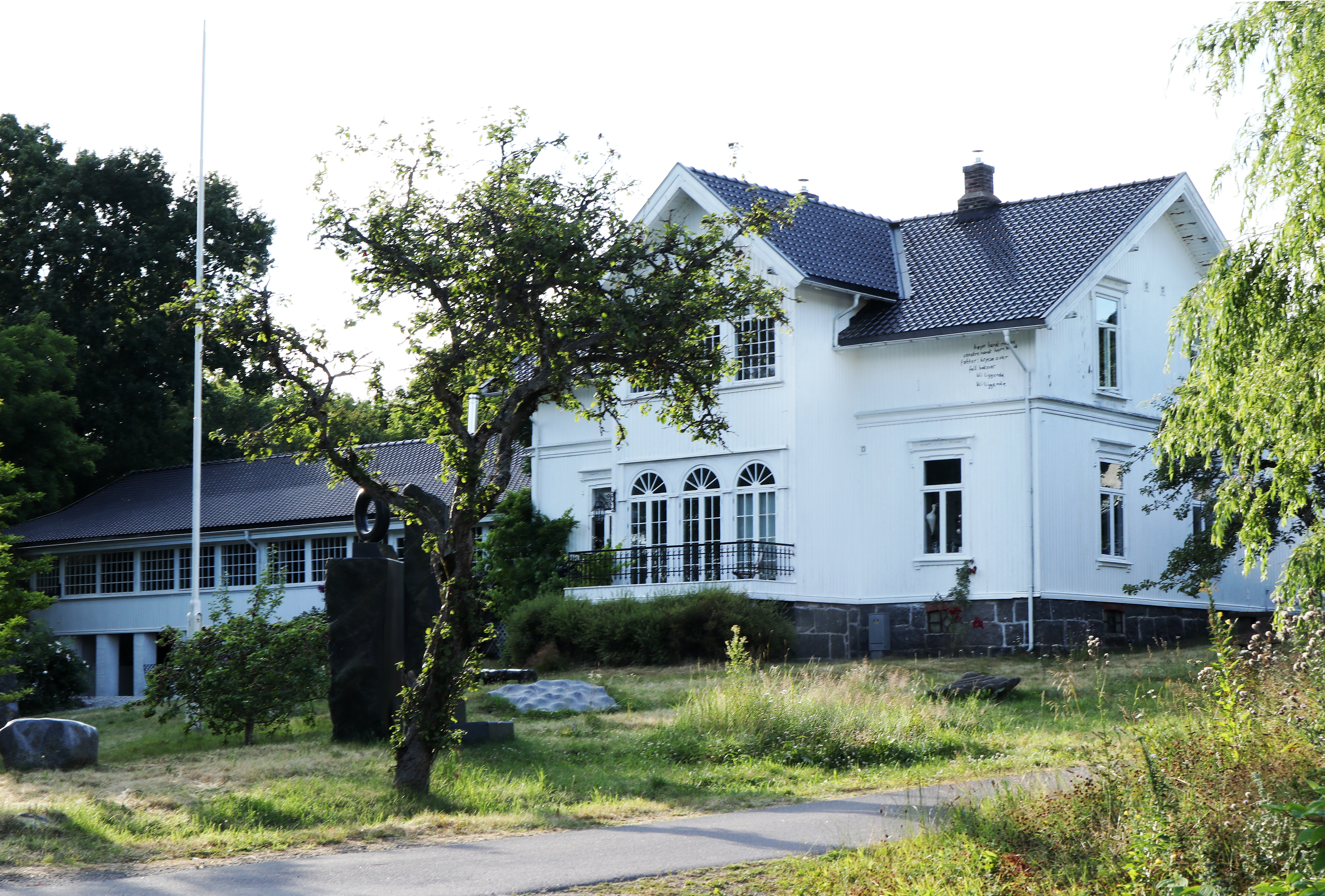 Ormelet pensjonat Tjøme